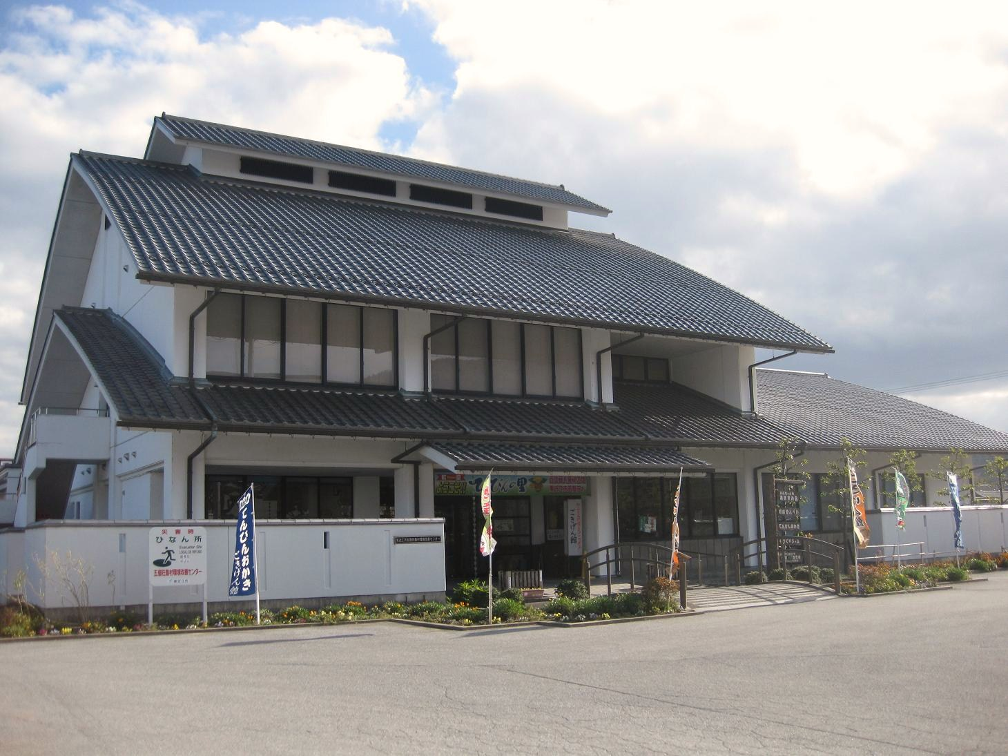 Ikiiki-kan, Gokasho, Higashiomi, Shiga, Japan